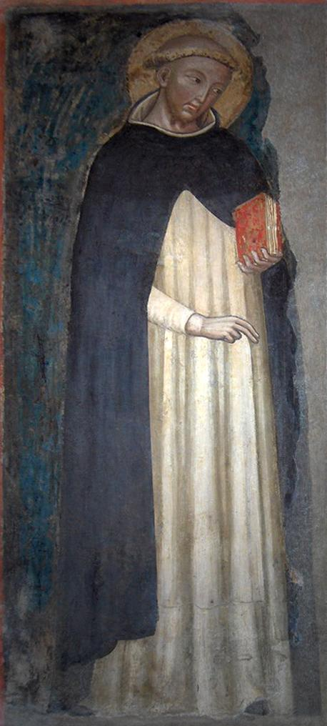 Oldest image of Saint Dominic (unknown artist, 14th century) (Basilic of Saint Dominic, Bologna, Italy)